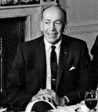 President John F. Kennedy Hosts Luncheon for State Governors